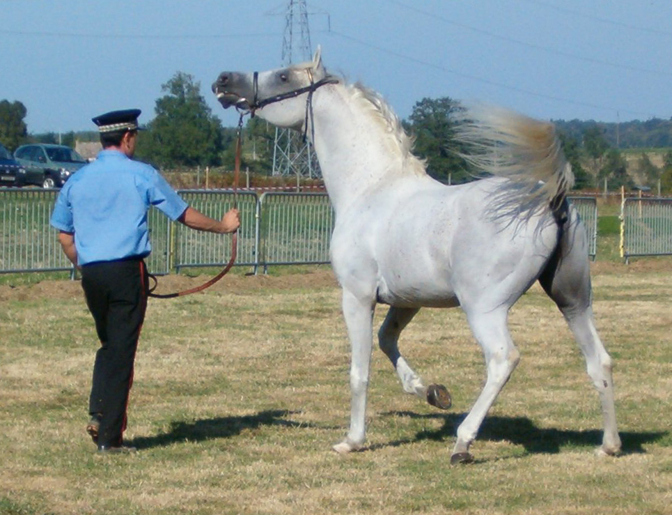 Purebred Arabian stallion.